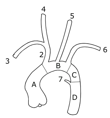 Scetch showing aorta ascendens, aortic arch and aorta descendens with vessels leaving. My own work, Kjetil Lenes. Legend: A: Aorta ascendens B: Arcus aortae C: Isthmus aortae D: Aorta descendens 2:Truncus brachiocephalicus 3: arteria subclavia dextra 4: arteria carotis communis dextra 5. a. carotis communis sinistra 6: a. subclavia sinistra 7: Ductus arteriosus